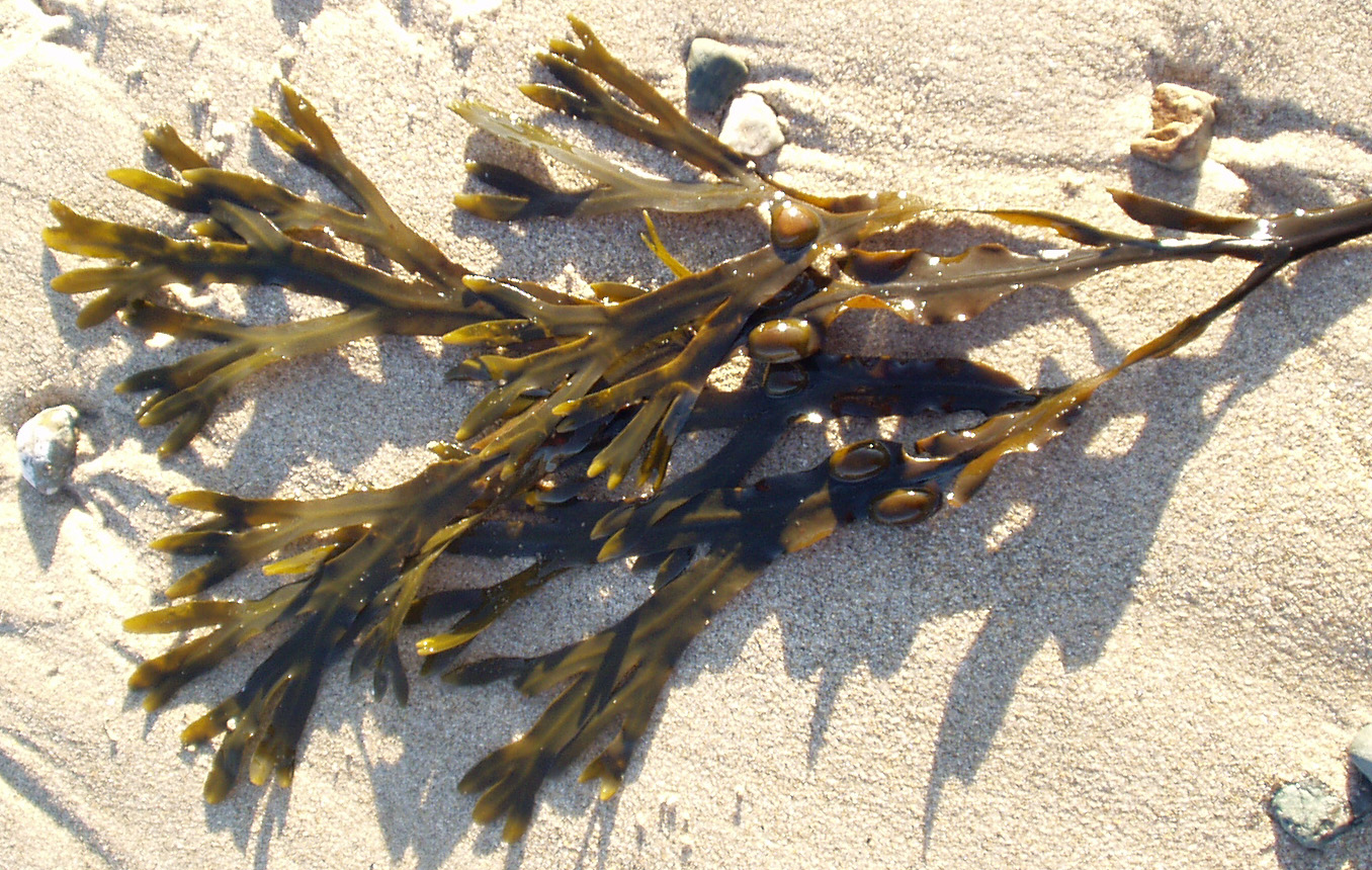 Bladder wrack at Porth Trecastell, Anglesey, Wales.